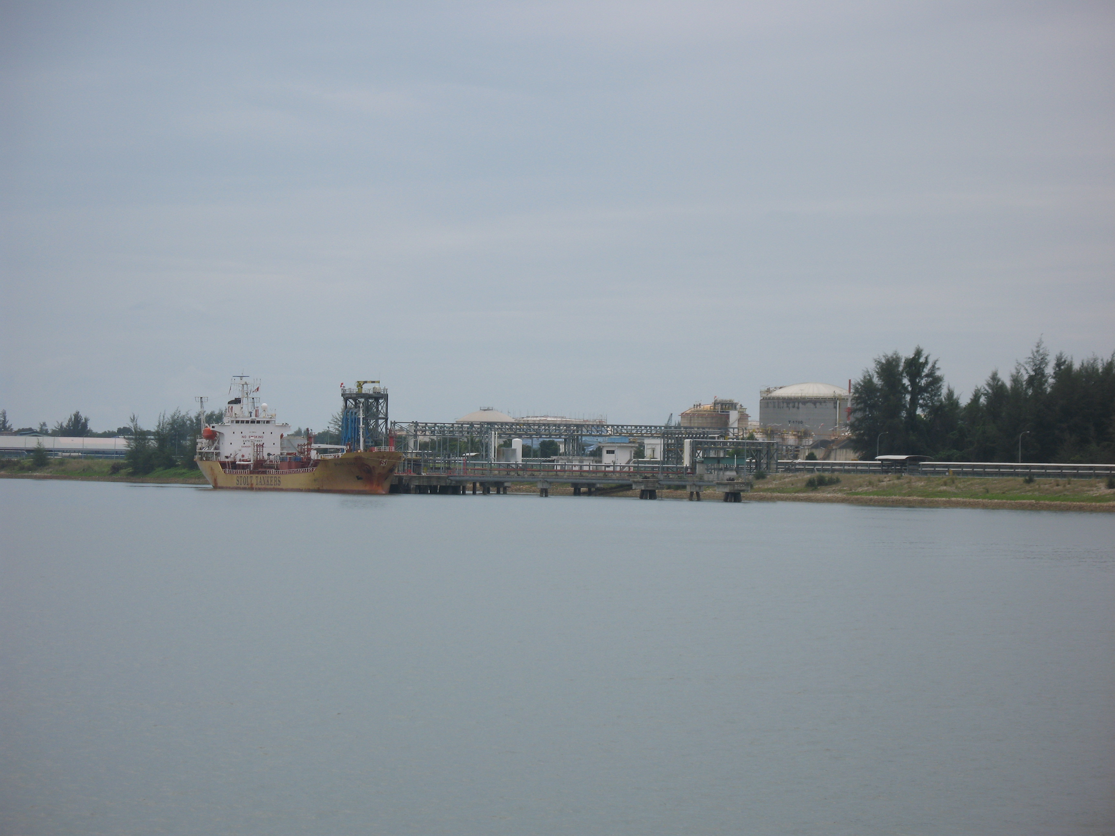 "I took this picture at Kuantan Port on 25 July 2007. Kuantan Port has a lot of liquid cargo berths. This is one of them."